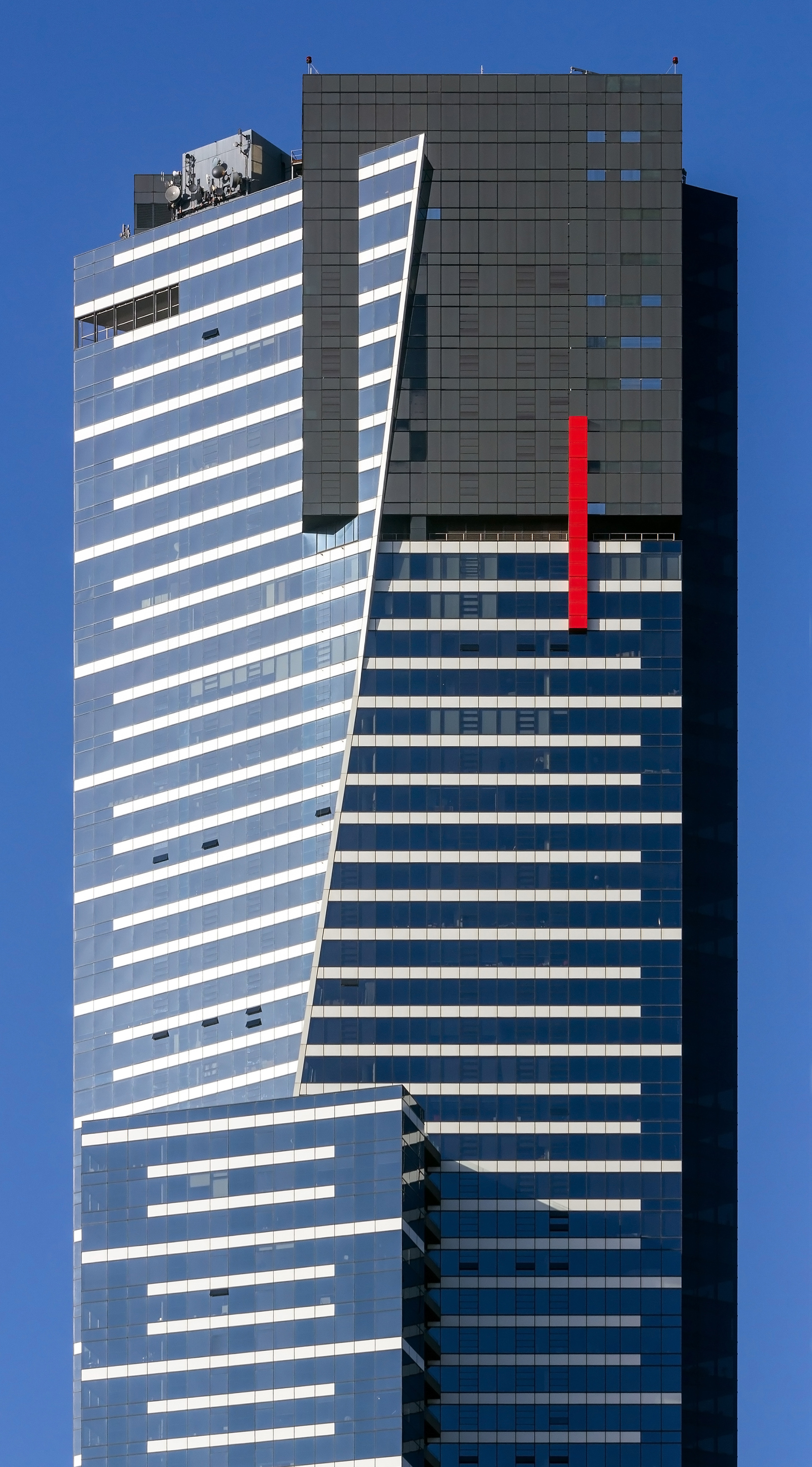 Eureka Tower (top), Melbourne 2017-10-30